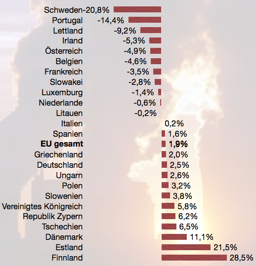 change of CO2 emissions of the ETS sector (2005-2007) during the first phase of the EU emission trading system. Graph is based on data from the European Commission